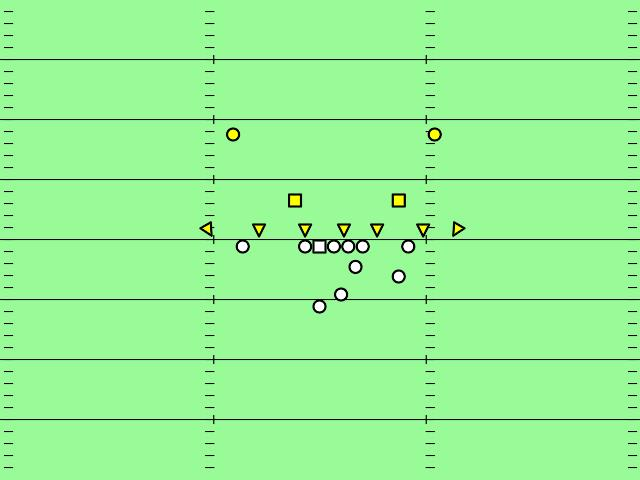 A redrawing of a play as depicted in Bernie Bierman's '"Winning Football", page 209. This is a play in the game Alabama-Mississippi State, 1936. The purpose of this drawing is to show a 7-2-2 lineup ads it was played in the 1930s.